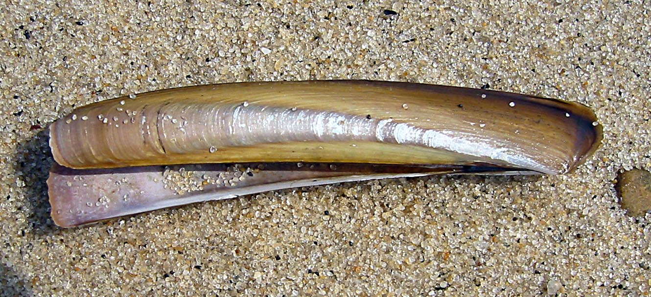 Ensis spec. image made by Uwe Kils